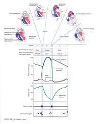 Curvas de presión